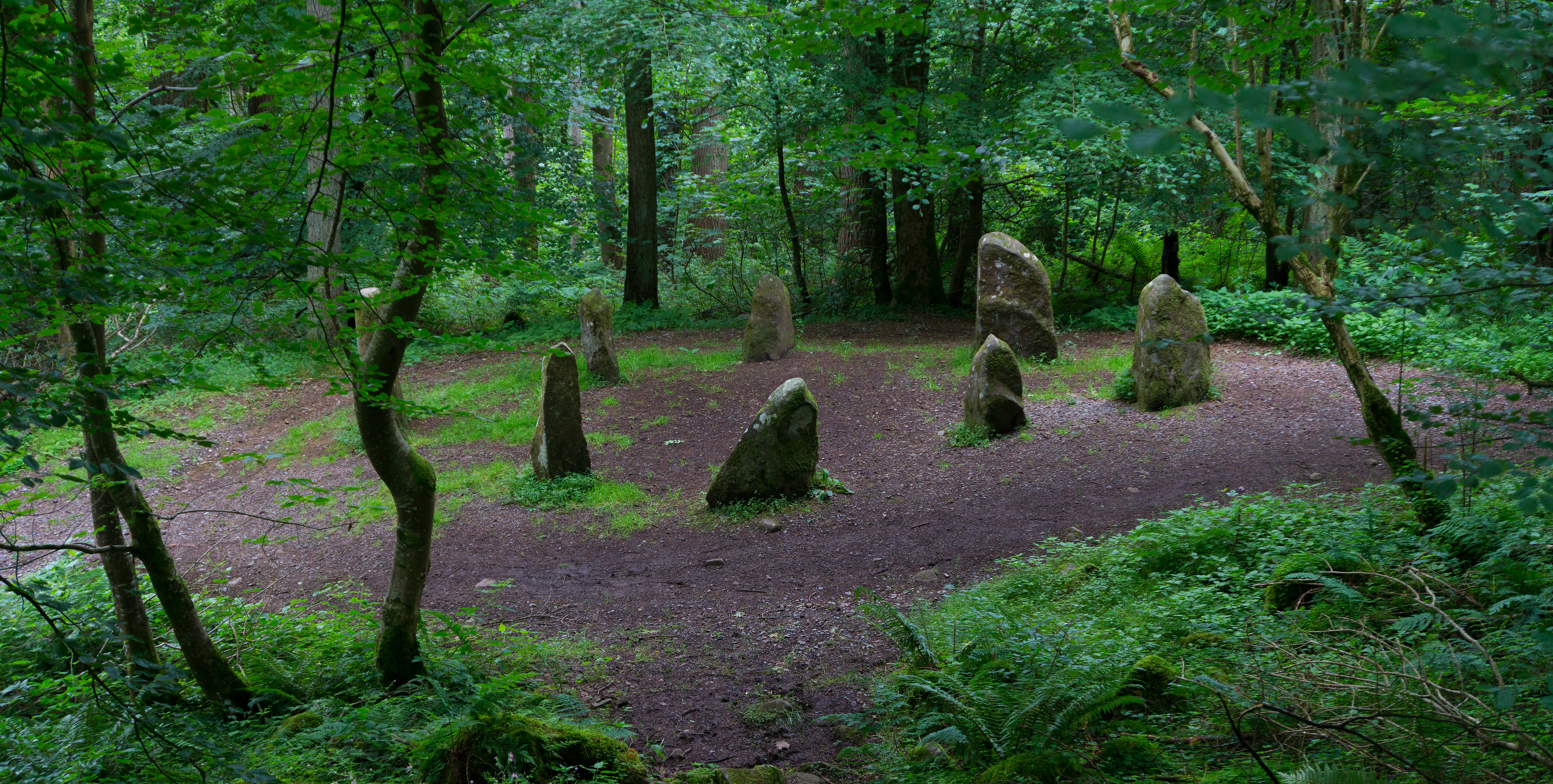 Ravensdale Park - Circular stones